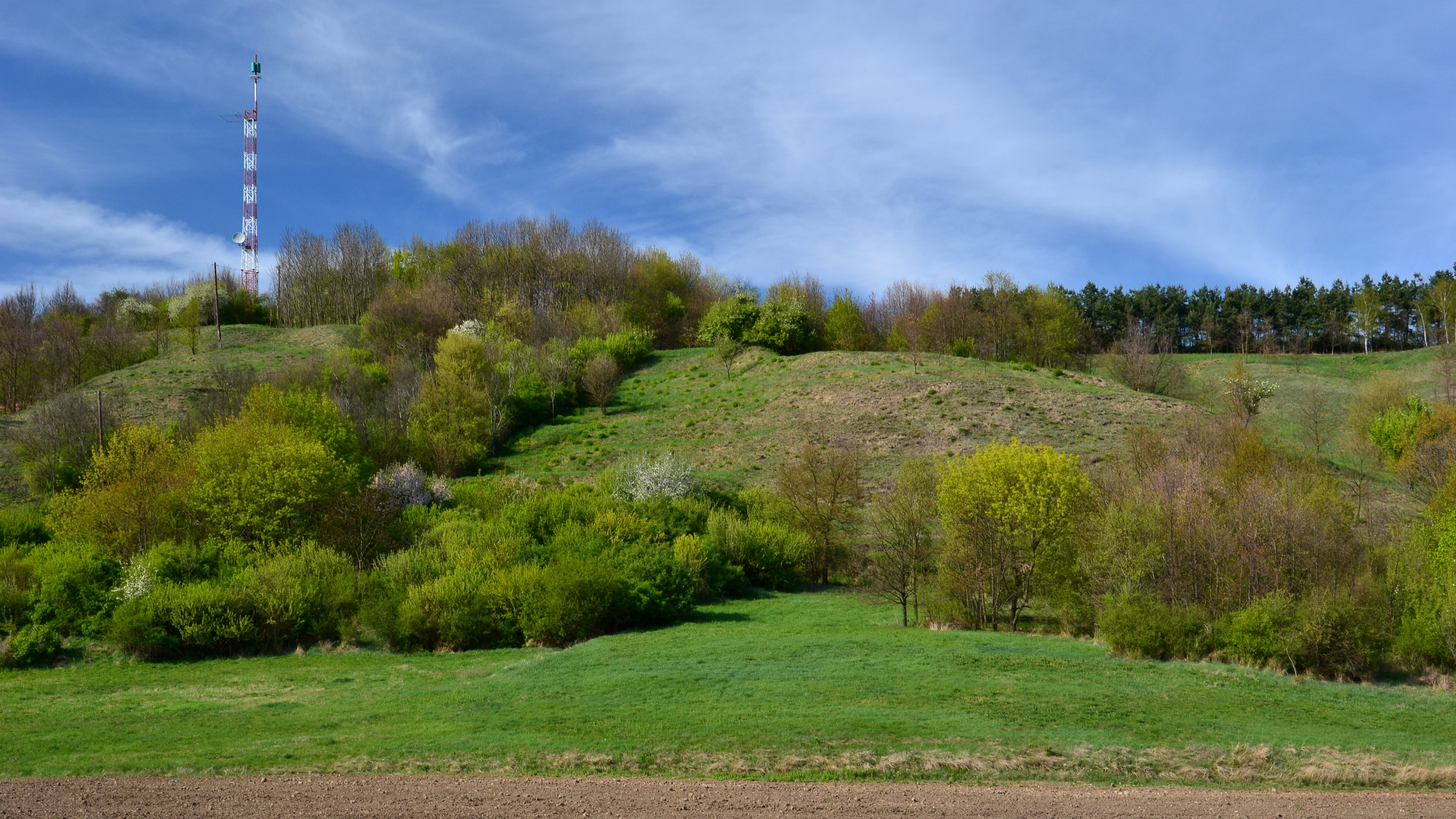 Natural monument Žatec in LounyDistrict, Czech Republic